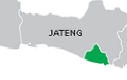 karesidenan yogyakarta